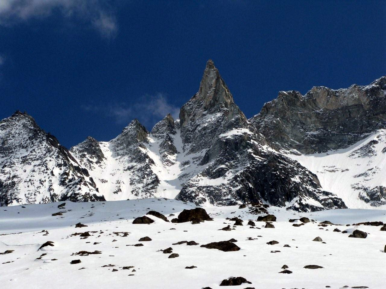 Aiguille de la Tsa